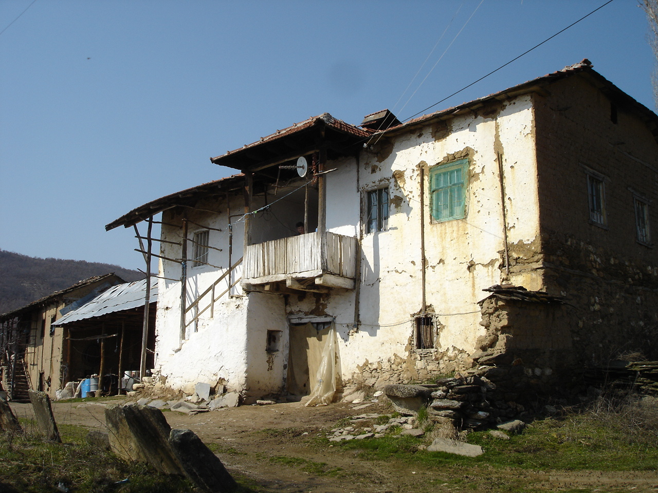 An old Macedonian house in Rilevo, Prilep region